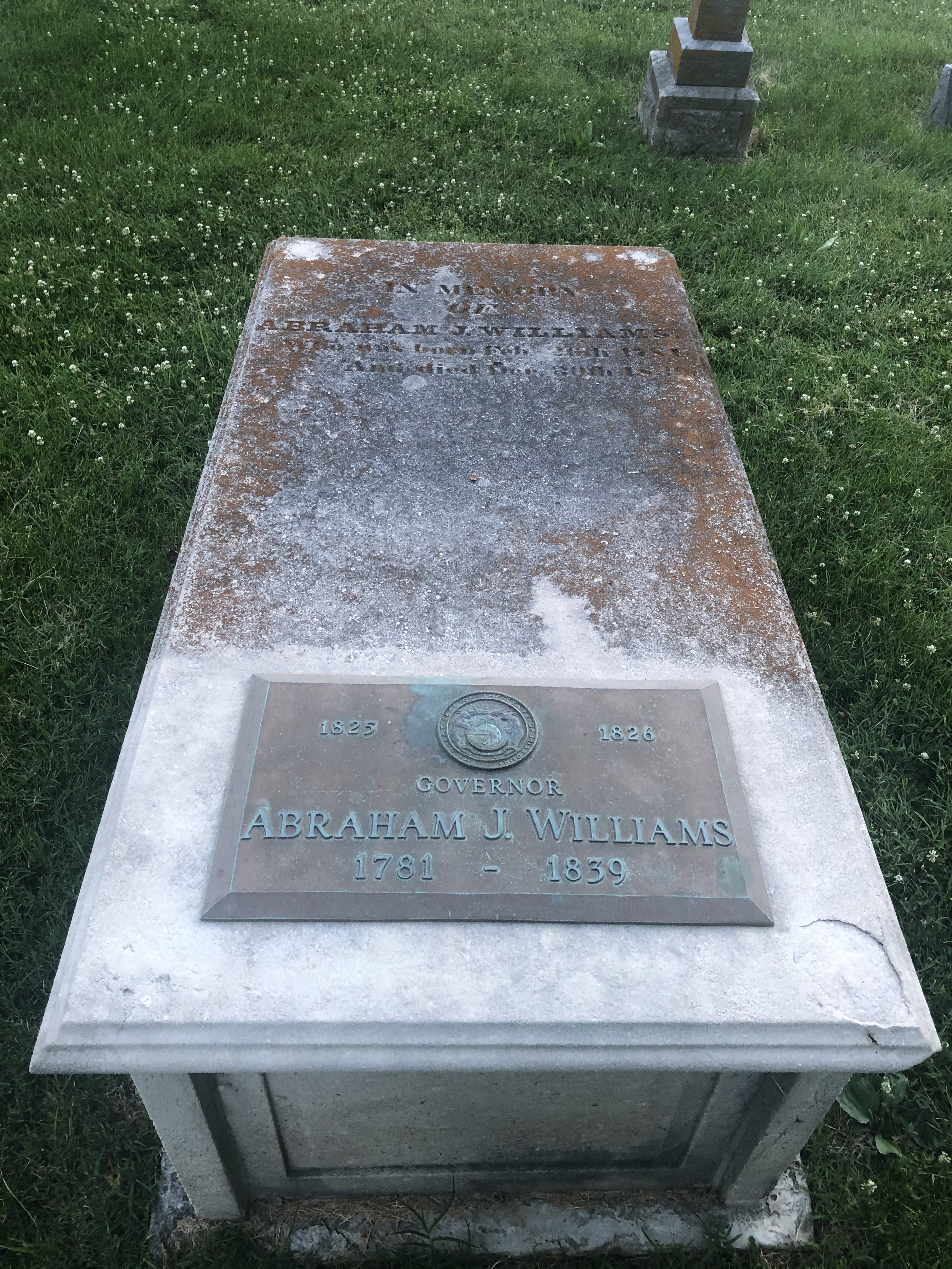 Tombstone of Abraham J. Williams, third governor of Missouri, in the Columbia Cemetery. Taken in June 2020